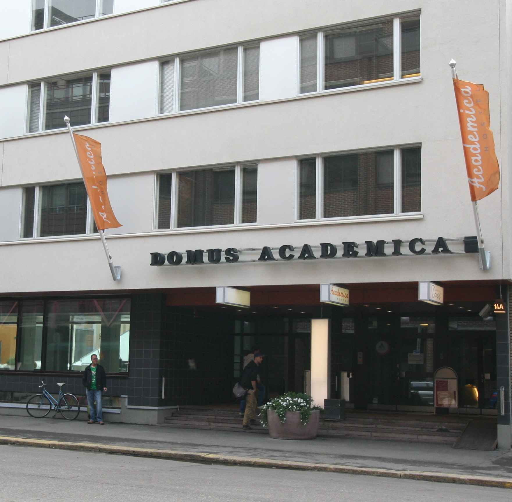 Entrance to Domus Academica (student housing and summer hostel), Helsinki